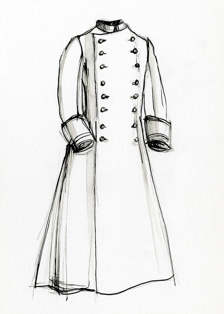 Drawing of the Thesaurus concept : 'banyan'. Men's loose-skirted wraps worn informally from the 17th to early 19th century; so called from their resemblance to similar garments worn by Banyans, a caste of Hindu merchants (AAT)